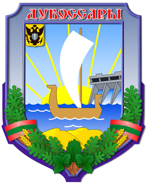 Coat of arms of Dubossary (Dubăsari), Pridnestrovie